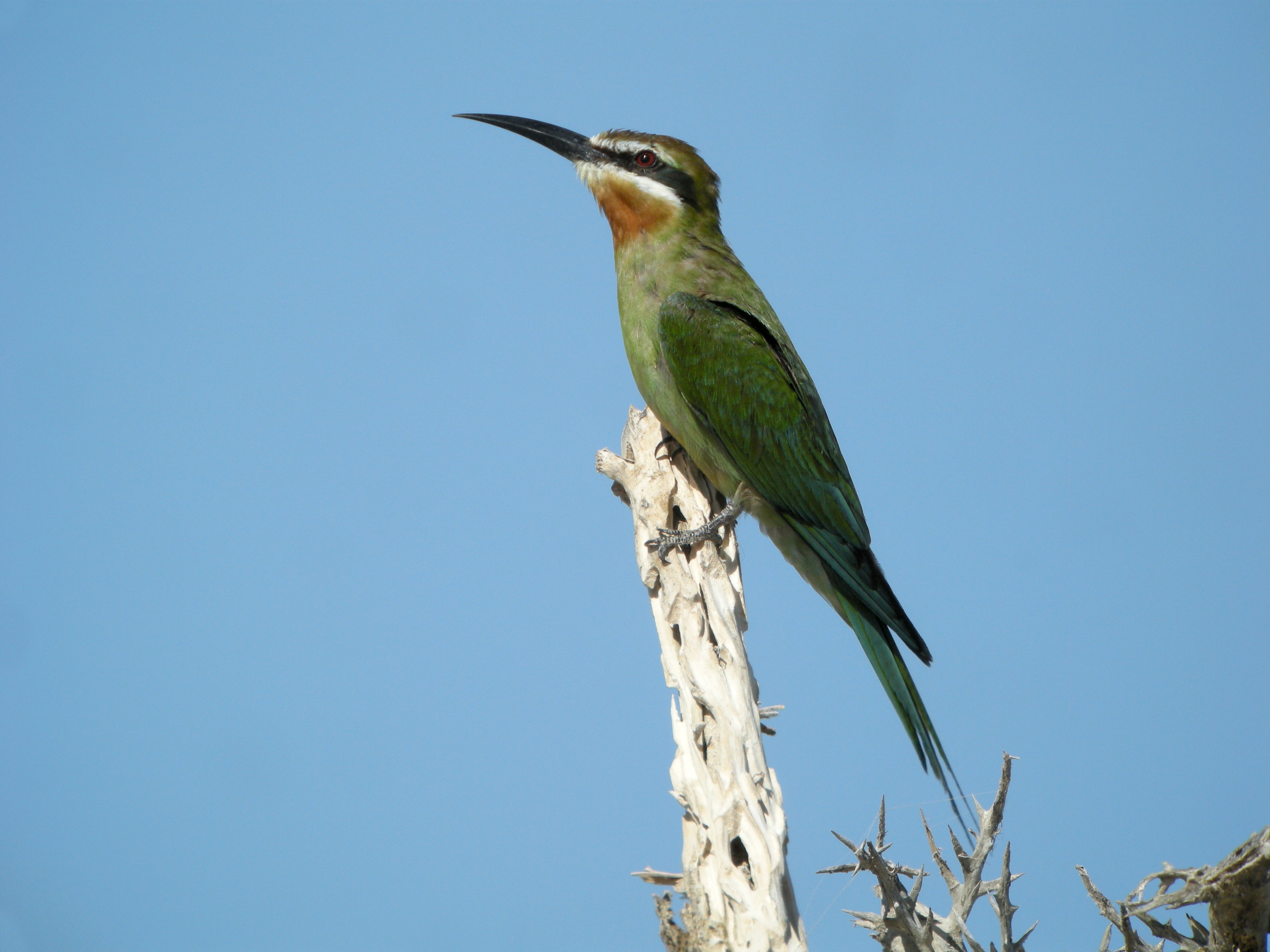 Olive Bee-eater, Ambola, SW Madagascar Swarowski 80 HD 30 X, Coolpix P5100 (Adapter DCB)